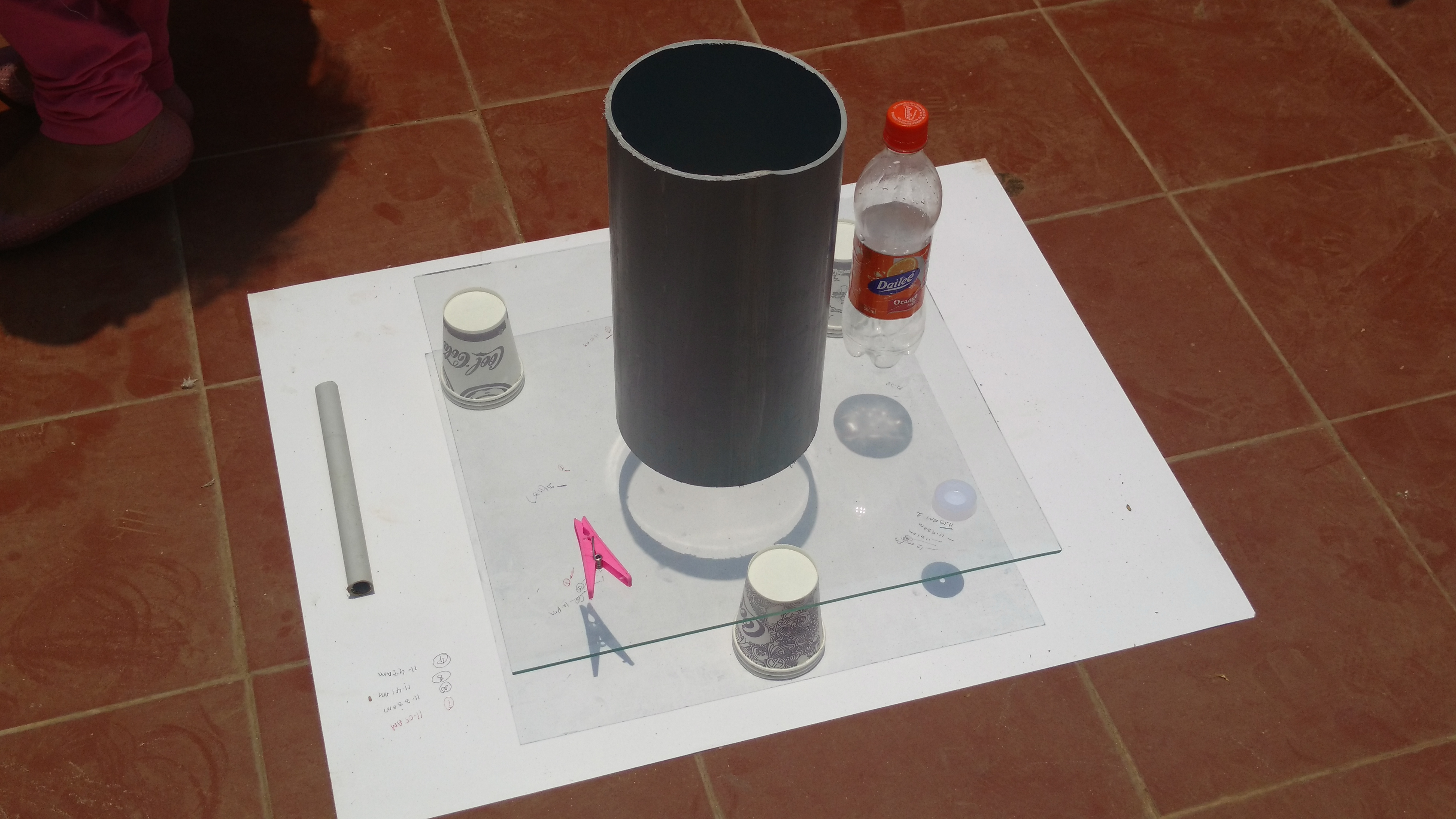 zero shadow day